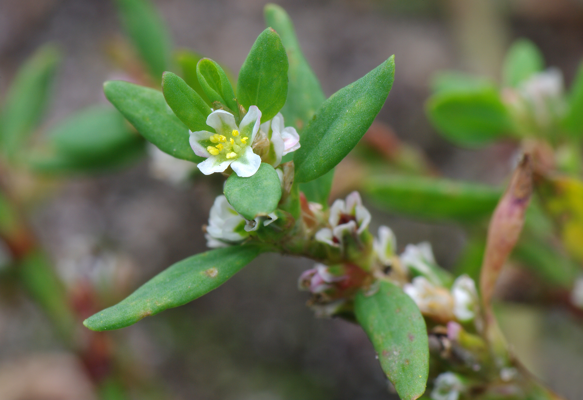 Close-up of Common Knotweed (Polygonum arenastrum).